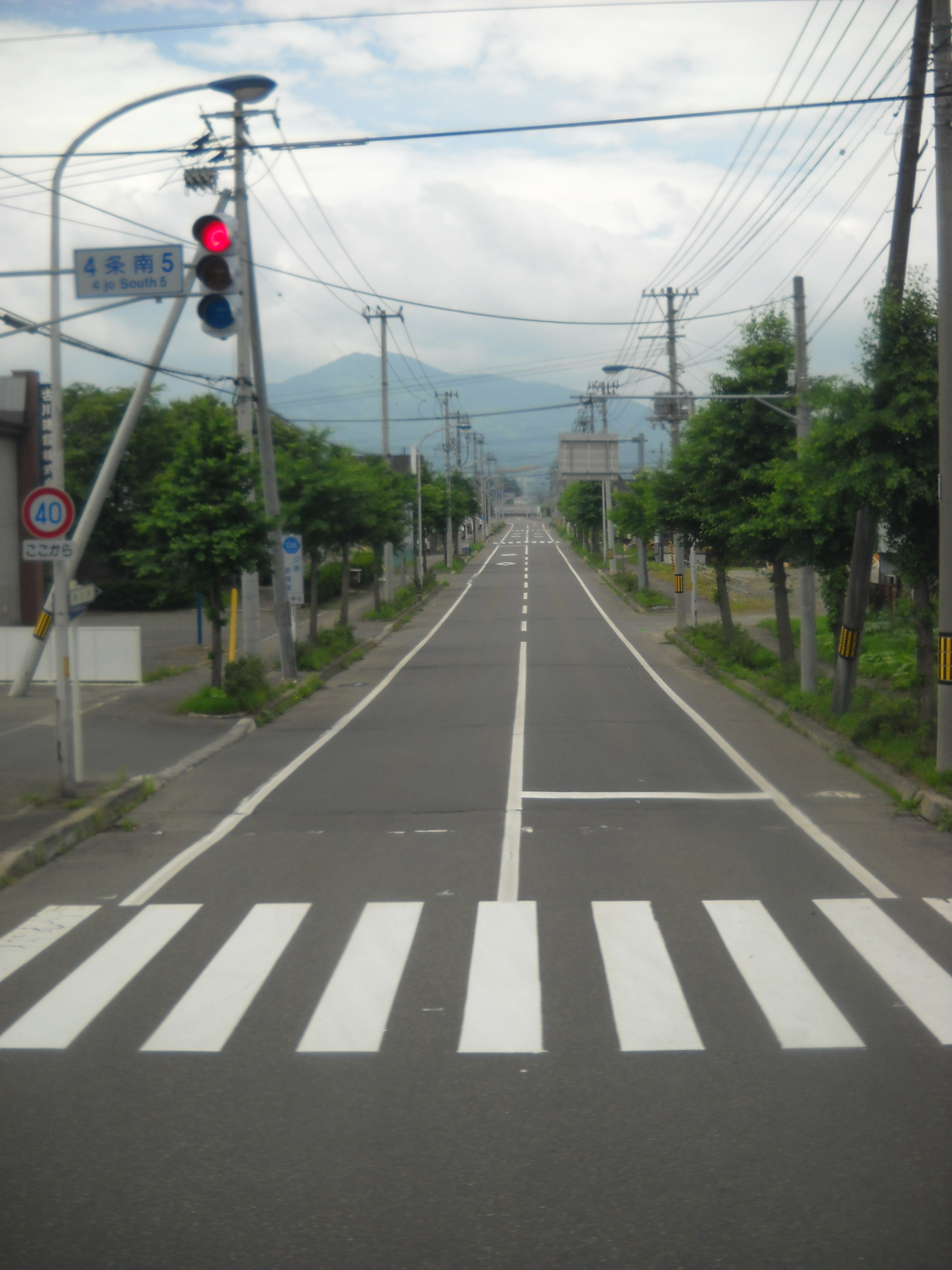 Hokkaido prefectural road route136, Shintoku, Hokkaido, Japan